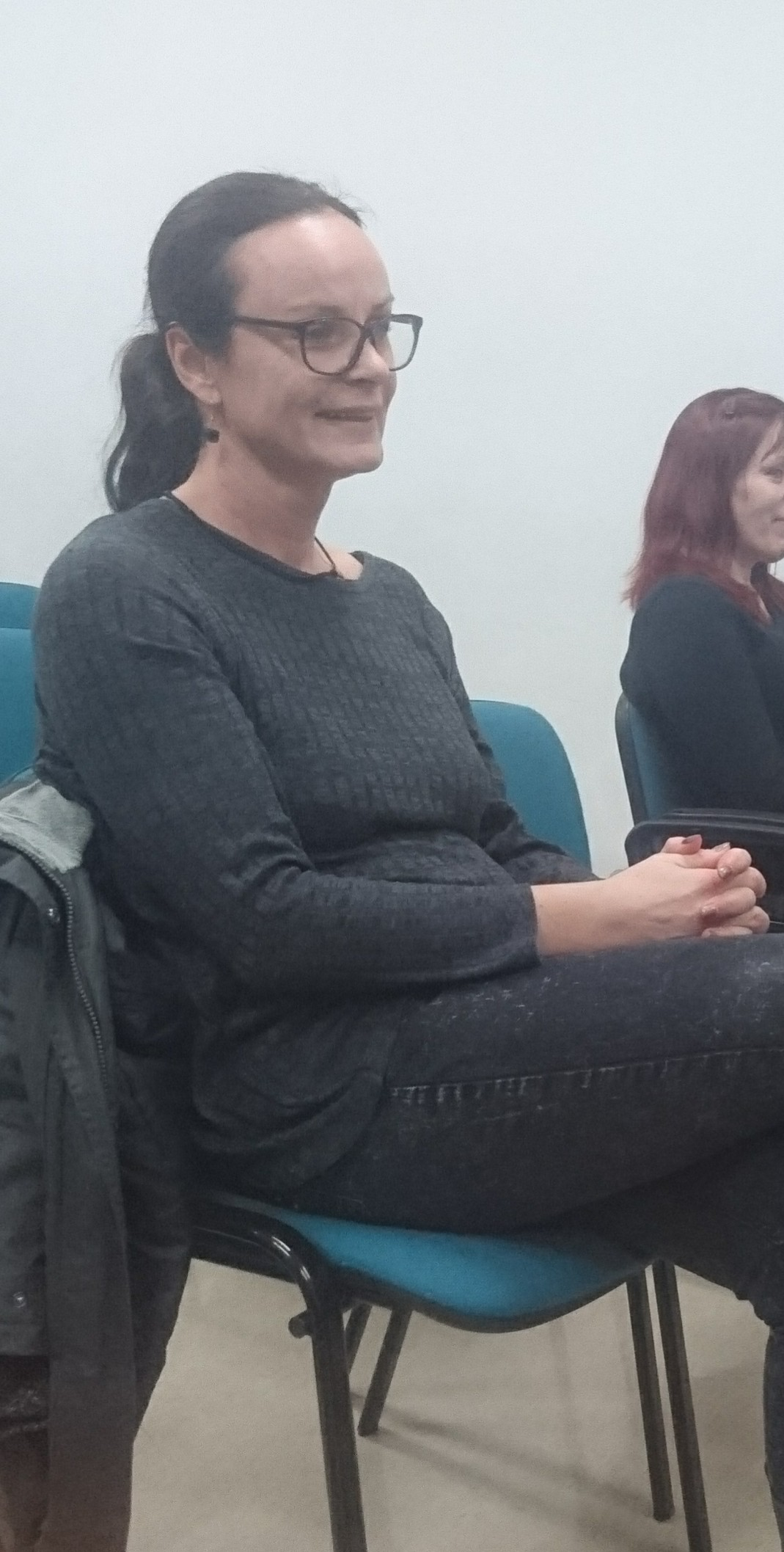 Estonian translator Tiina Randus, January 28, 2020 (cropped)